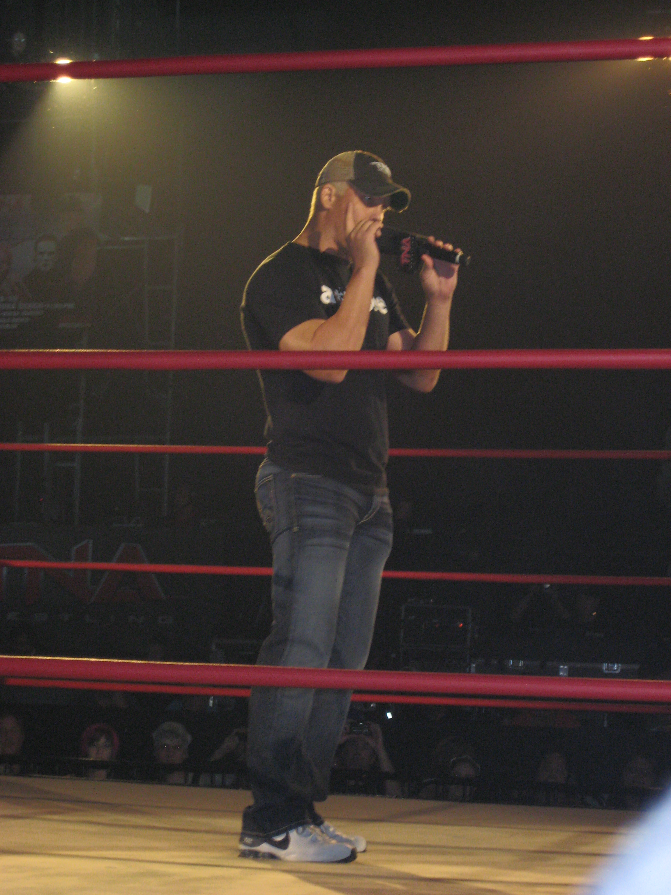 September 7th, 2010 tapings.